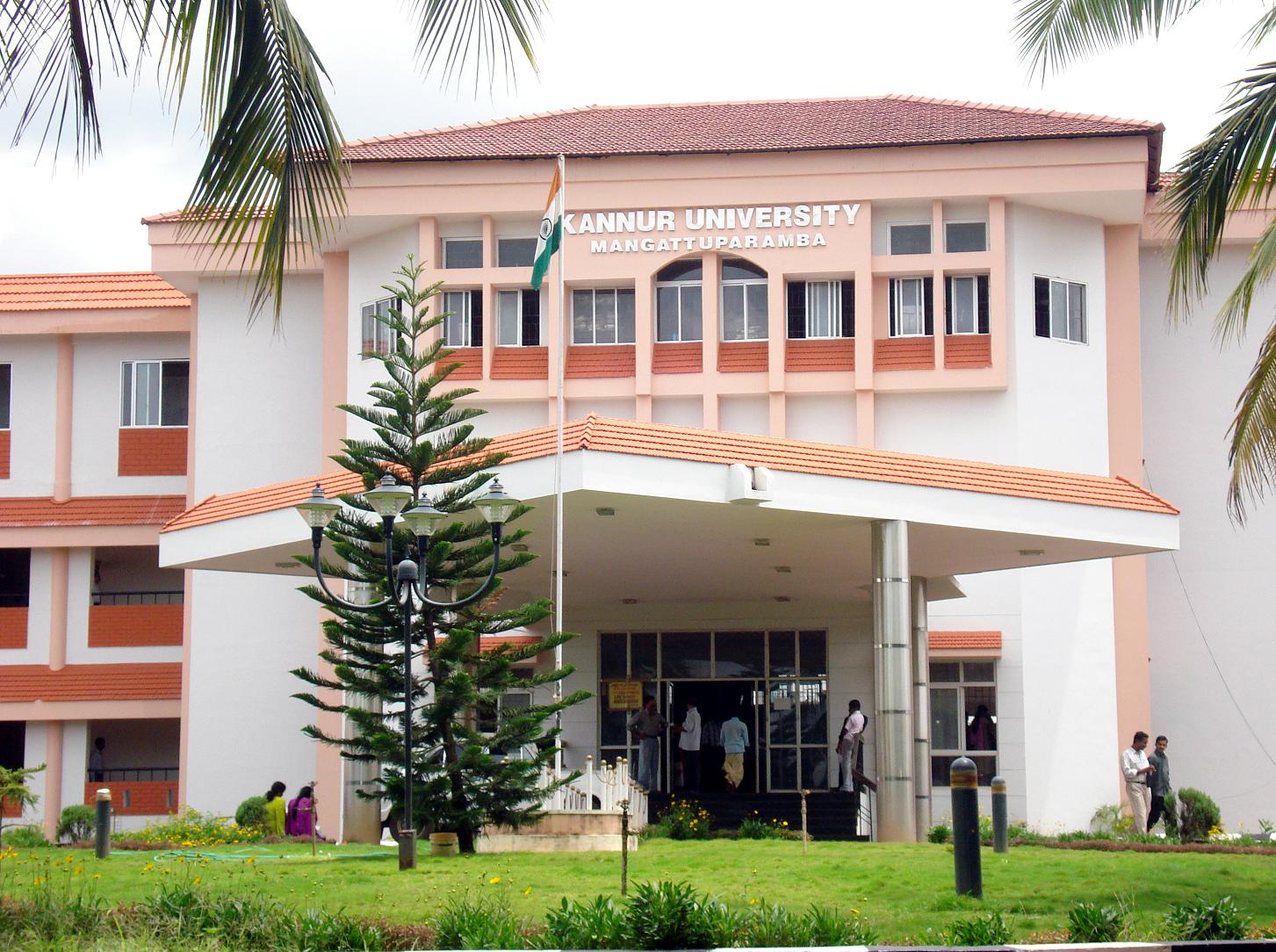 Kannur University, Kannur